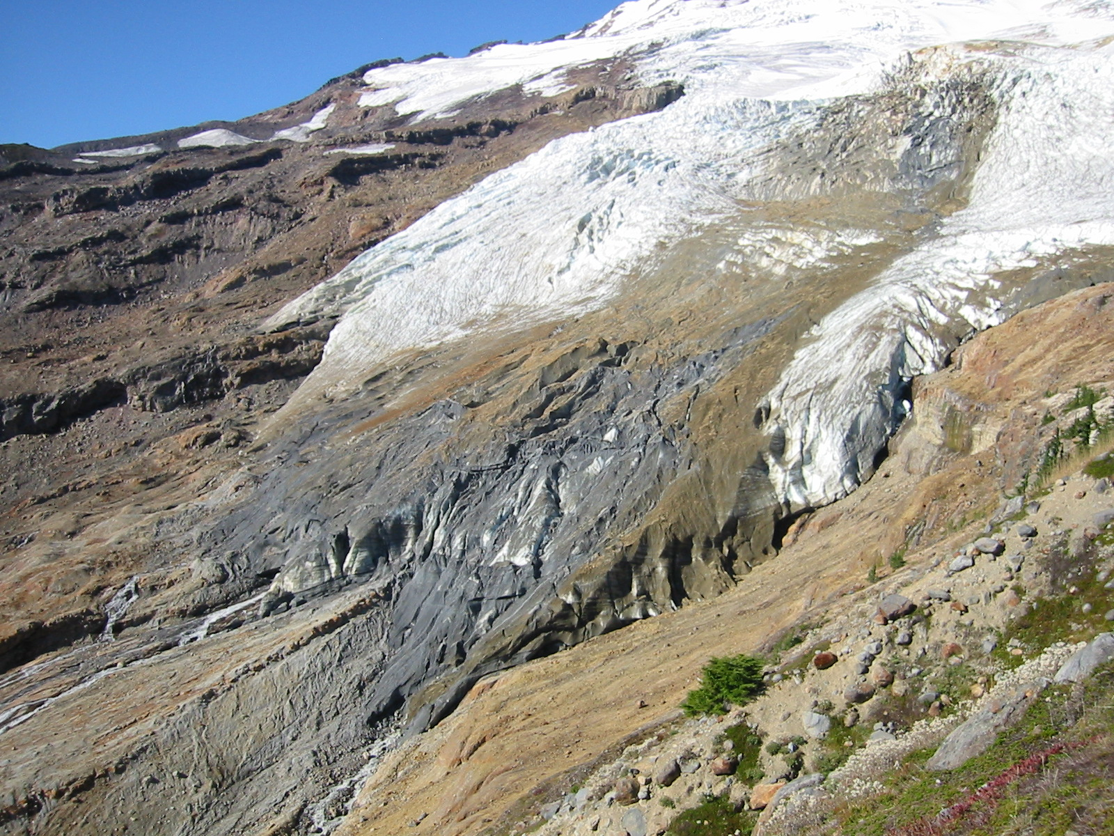 Boulder Glacier terminus; the unvegetated terrain below left has been newly exposed by the 430 m retreat of the glacier since 1980.